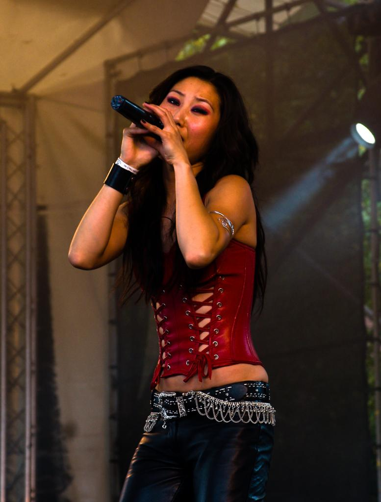 All 338 photos are available in full resolution of up to 10 MP (3872 x 2592) on